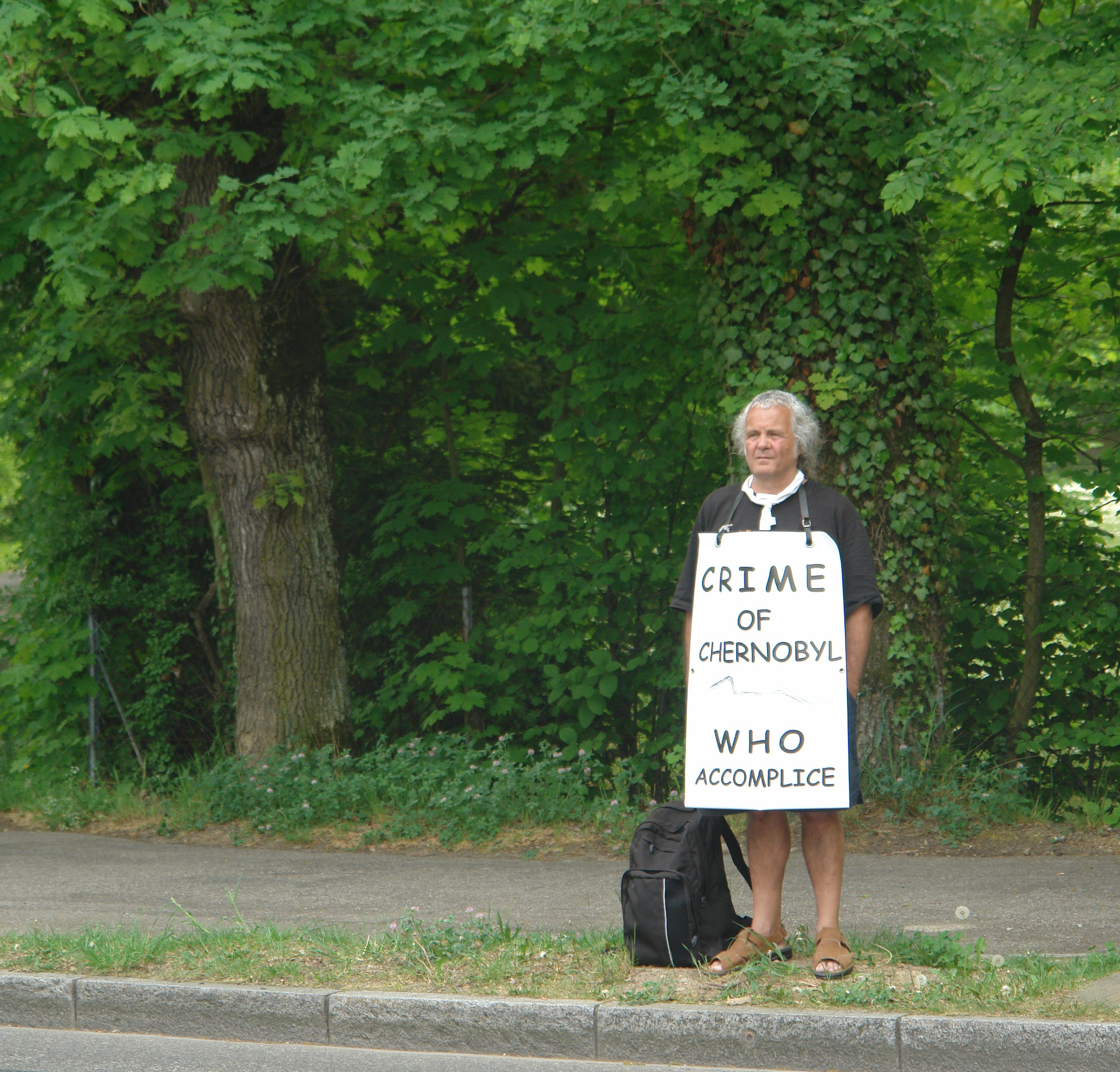 Demonstration on Chernobyl day near WHO in Geneva, André Larivière.